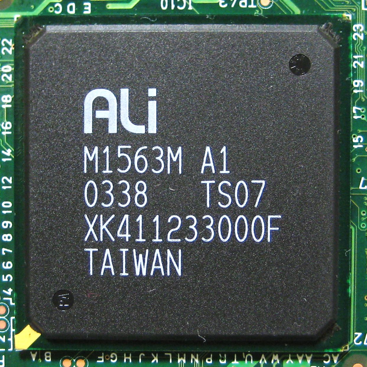 ALi M1563M.